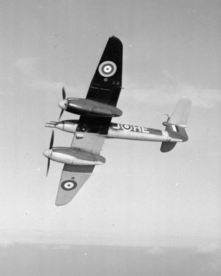 Westland Whirlwind, P6985 'HE-J', of No 263 Squadron RAF based at Exeter, Devon, banking away from the camera to reveal the paint scheme introduced on fighter aircraft from 27th November 1940. This consisted of sky under-surfaces, spinners and 18-inch rear fuselage band, and port wing, painted in black semi-permanent distemper.